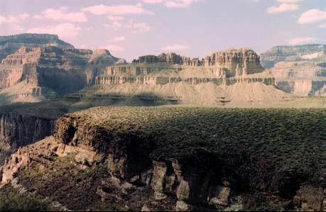 View of the Dox Castle sandstone butte, named for early female explorer Virginia Dox, near Shinumo Creek in the Grand Canyon. From a USGS report on pioneer geologist Levi Noble.